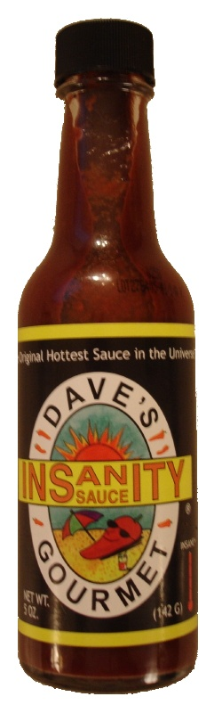 Bottle of Dave's Gourmet Insanity Sauce